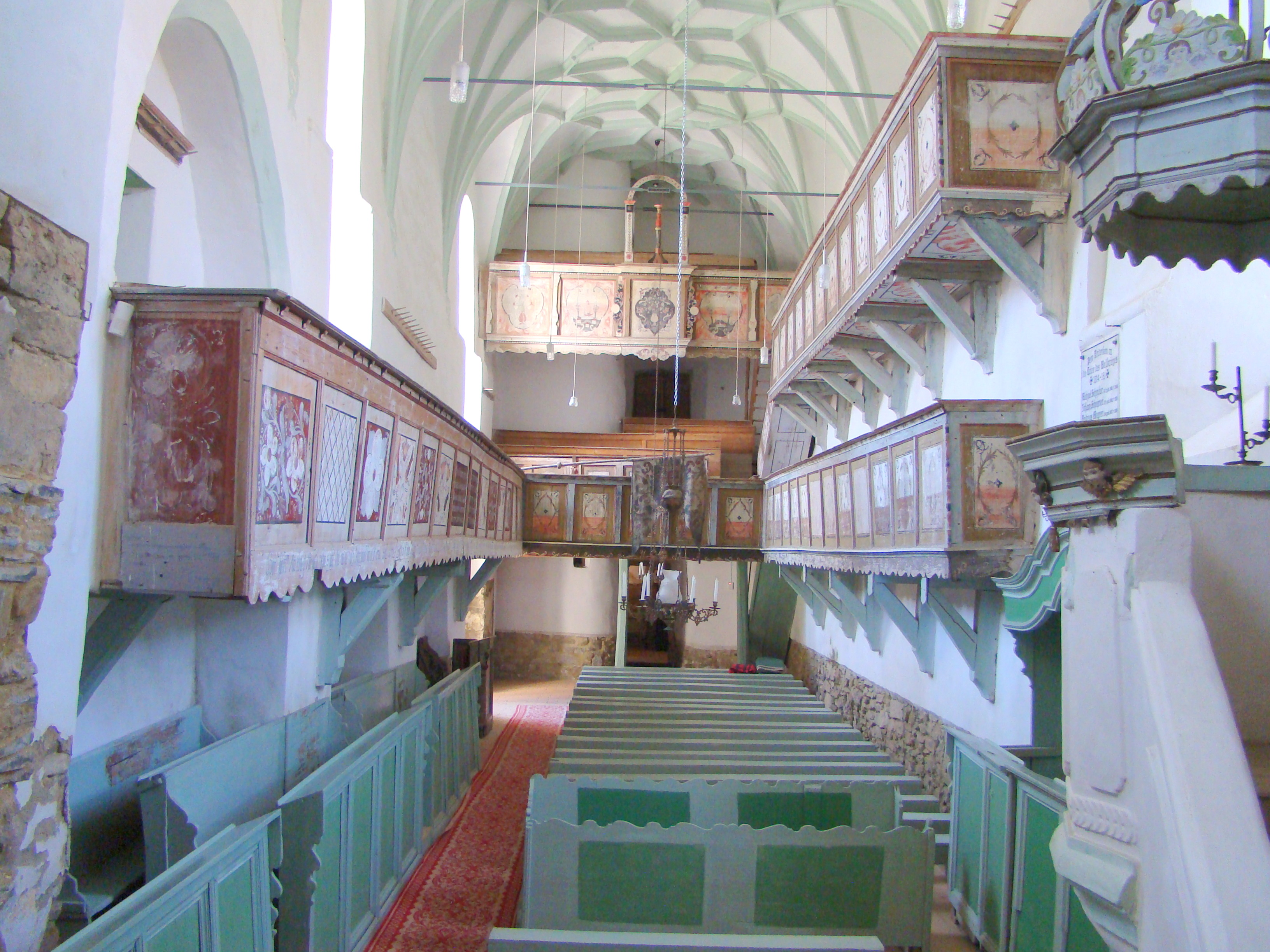 Fortified church in Bunești, Brașov County, Romania